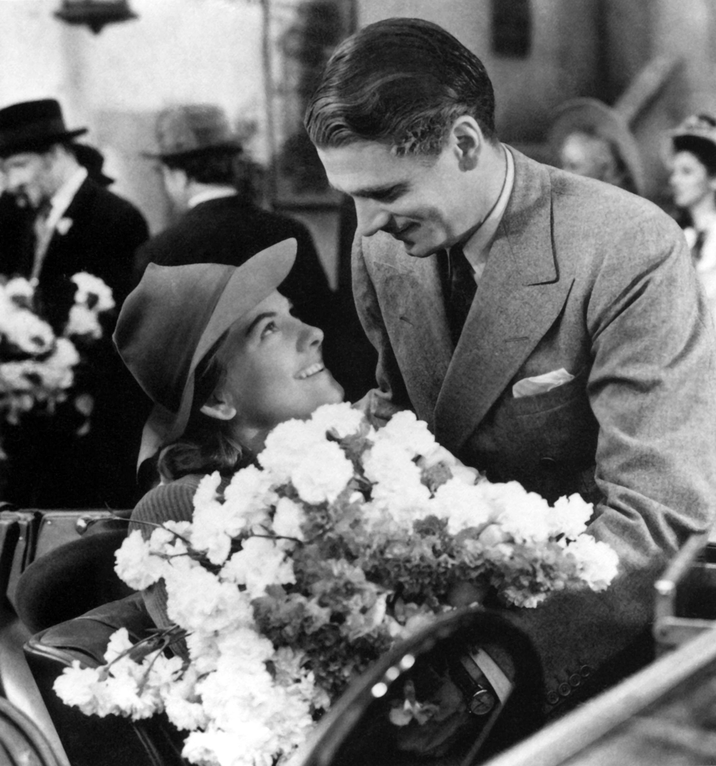 Promotional photograph of Joan Fontaine and Laurence Olivier in the film Rebecca